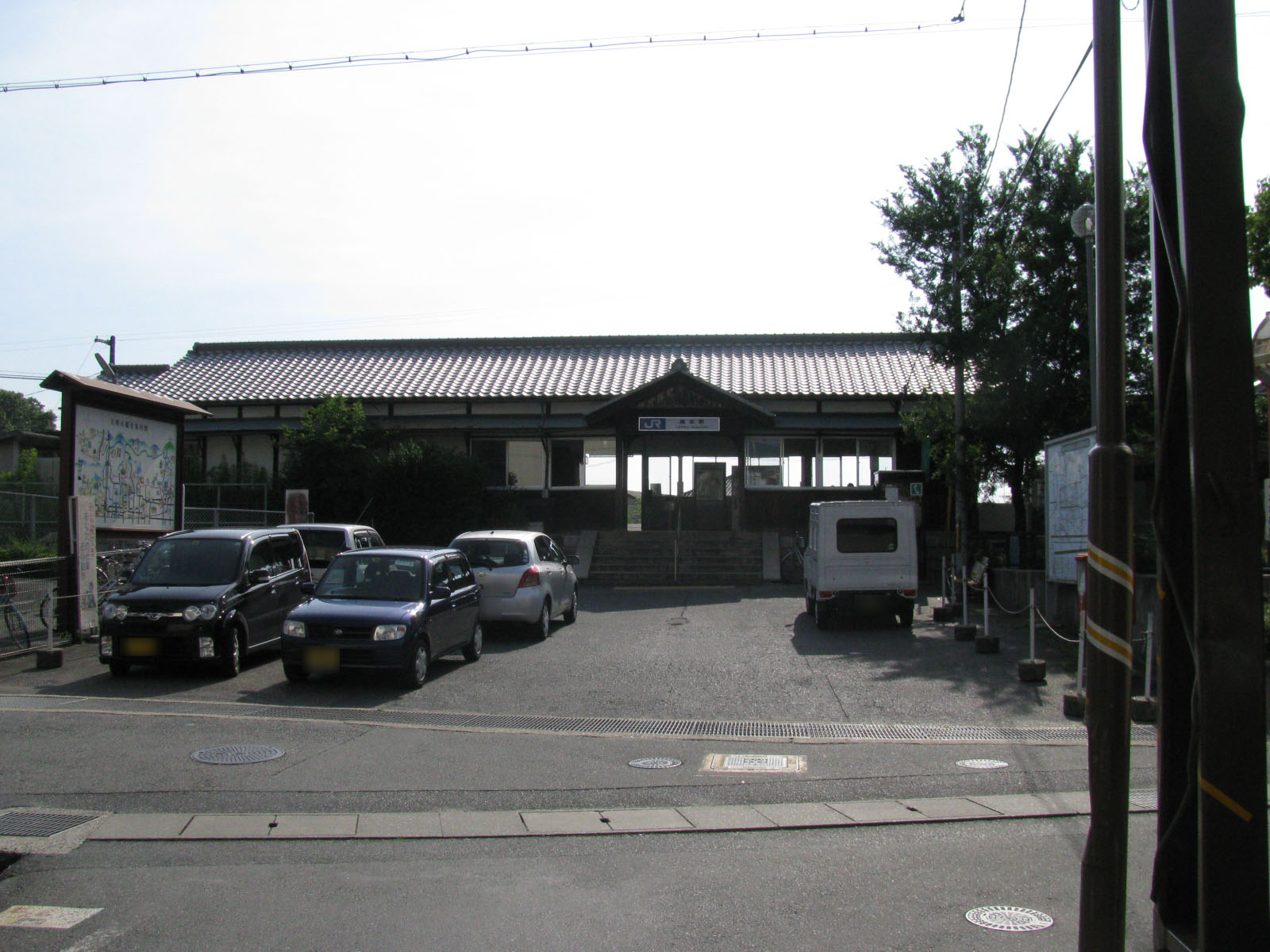 West Japan Railway Company, Sakurai Line, Ichinomoto Station.